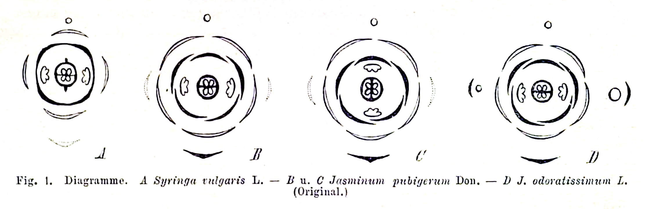 Flower diagrams of A. Syringa vulgaris L, B/C. Jasminum pubigerum Don, D. J. odoratissimum L.